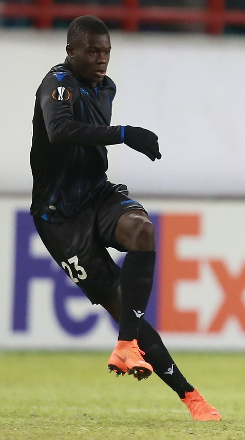 Malang Sarr